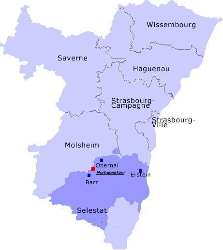 Modified version of Commons image Image:Els-bas-se-ma.png to show the location of the Alsatian village of Heiligenstein in the Arrondissement of SÃ©lestat-Erstein.